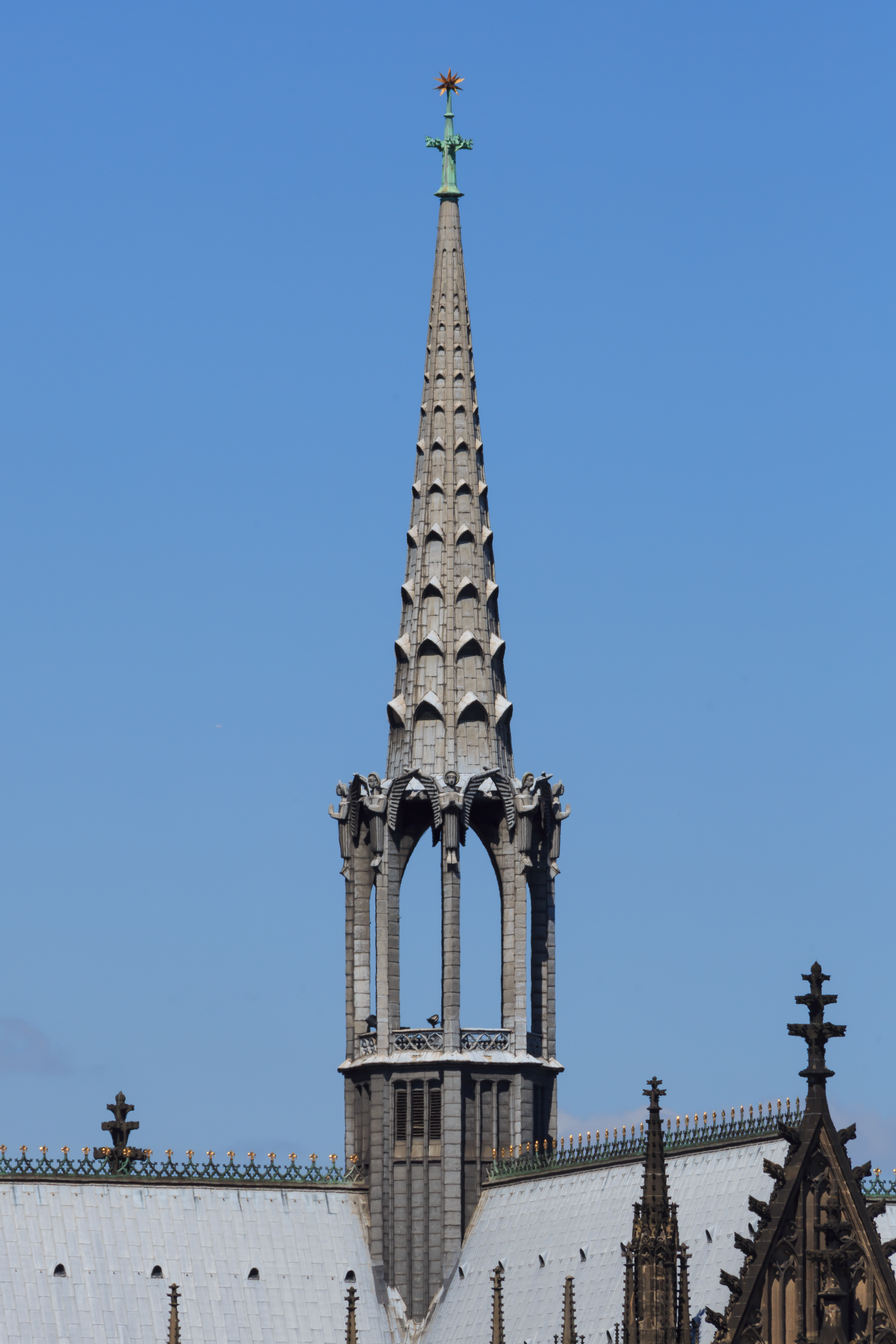 Cologne, Germany: Ridge turret of Cologne Cathedral